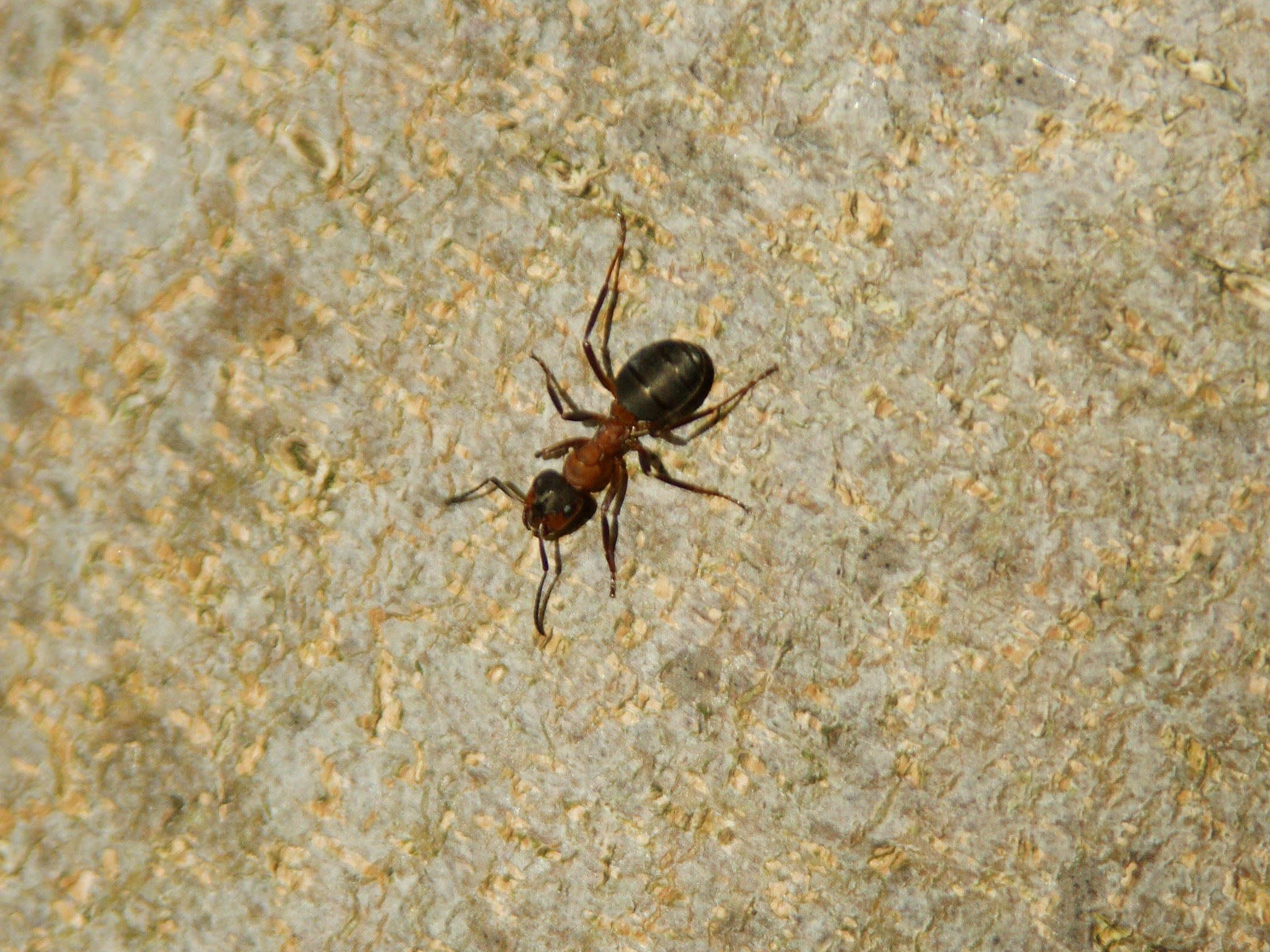 Formica exsecta near the baltic sea between Kappeln and Flensburg (Germany)